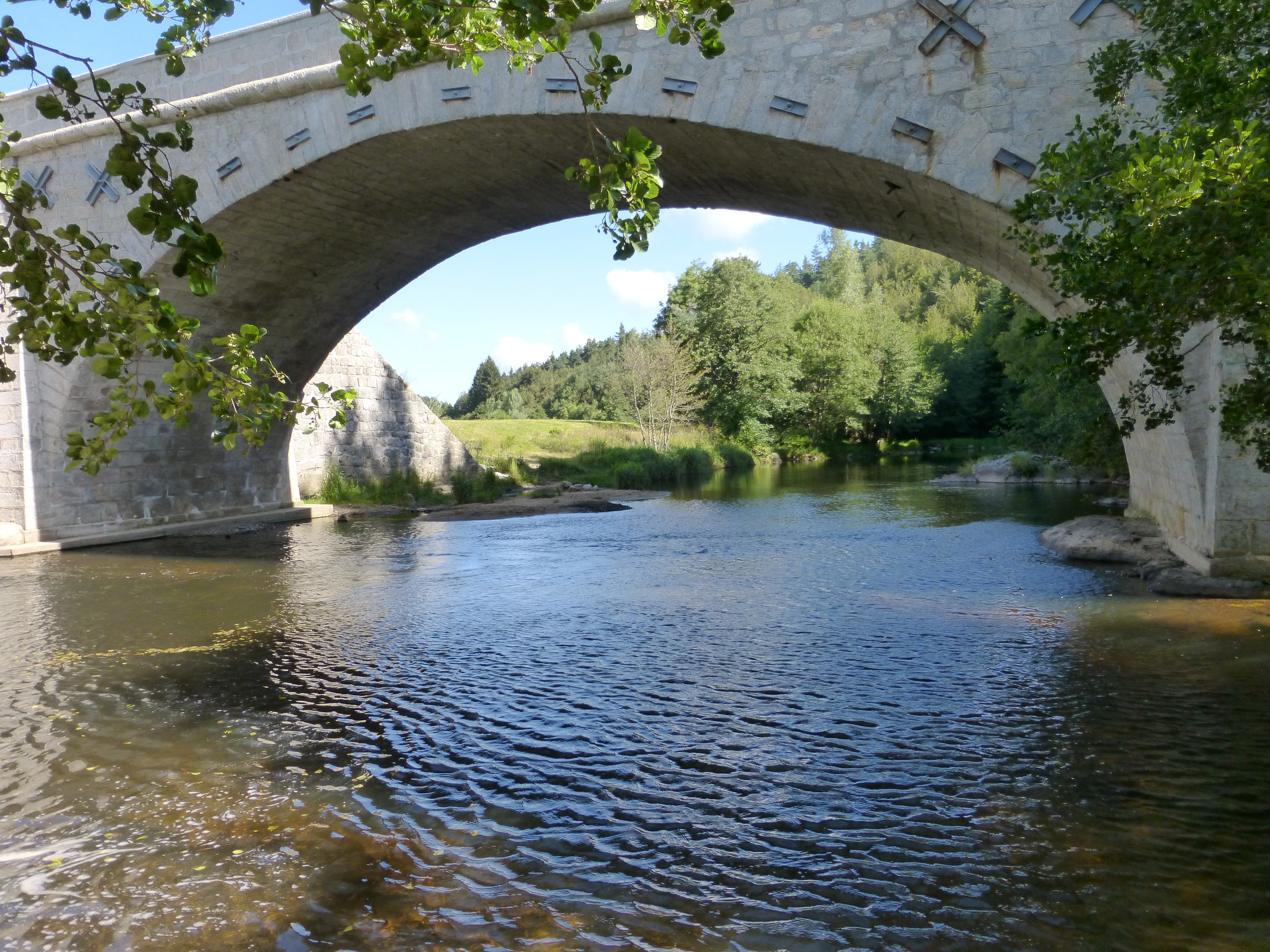 Pont-de-Mars bridge over the Lignon river. Mars, Ardèche, France. August 2016